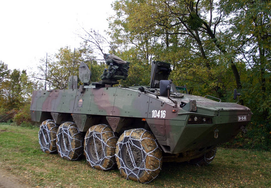 Patria AMV Svarun 8x8 Commander Vehicle